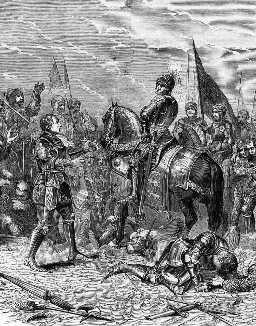 Battle of Bosworth Field: Lord Stanley Bringing the Crown of Richard III